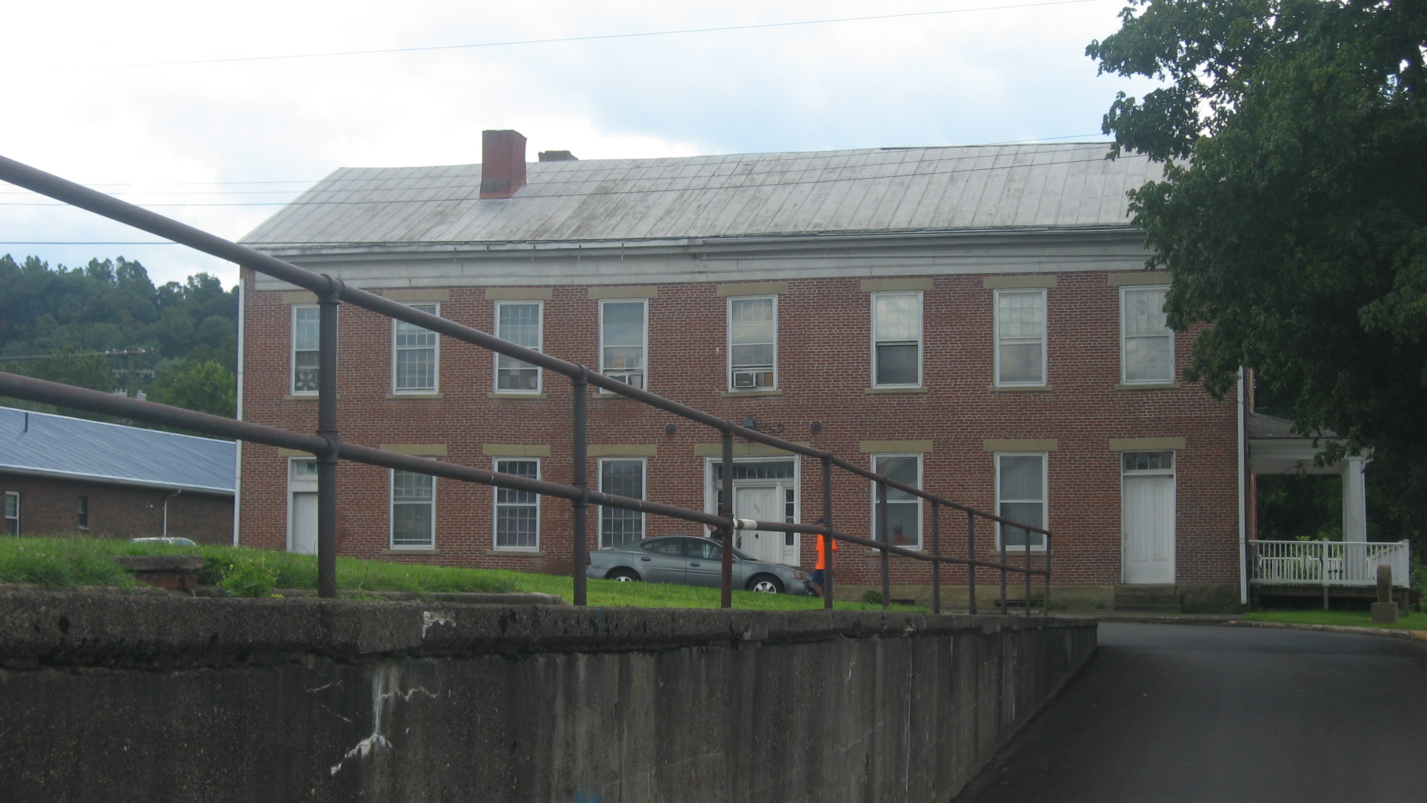 Northern side of the Cain House, located at the junction of Creel Street and Riverside Drive in St. Marys, West Virginia, United States. Built in 1850, it is listed on the National Register of Historic Places.